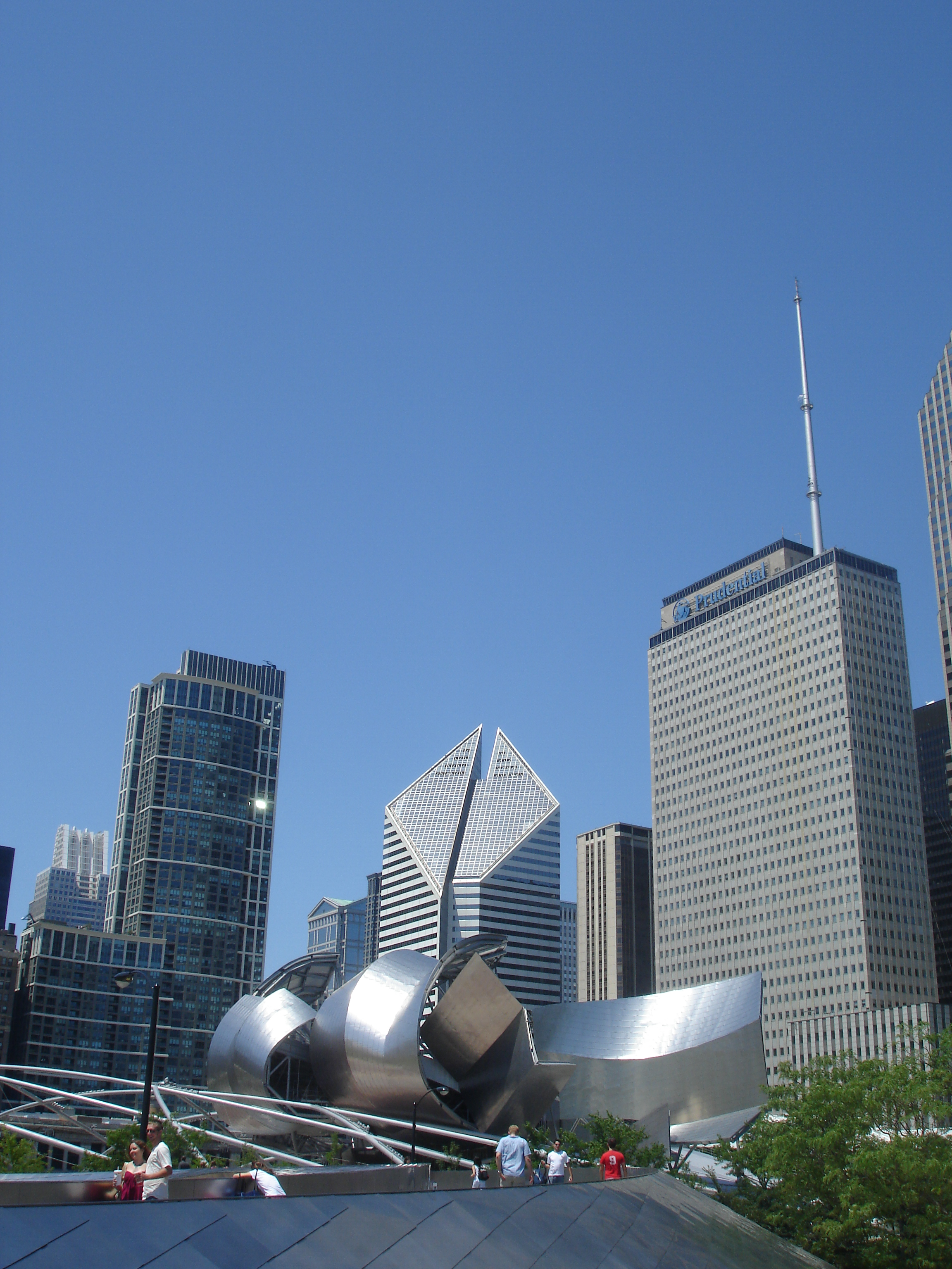 The BP Pedestrian Bridge in Millennium Park, Chicago, Illinois, USA, facing The Heritage at Millennium Park, Smurfit-Stone Building, and One Prudential Plaza.